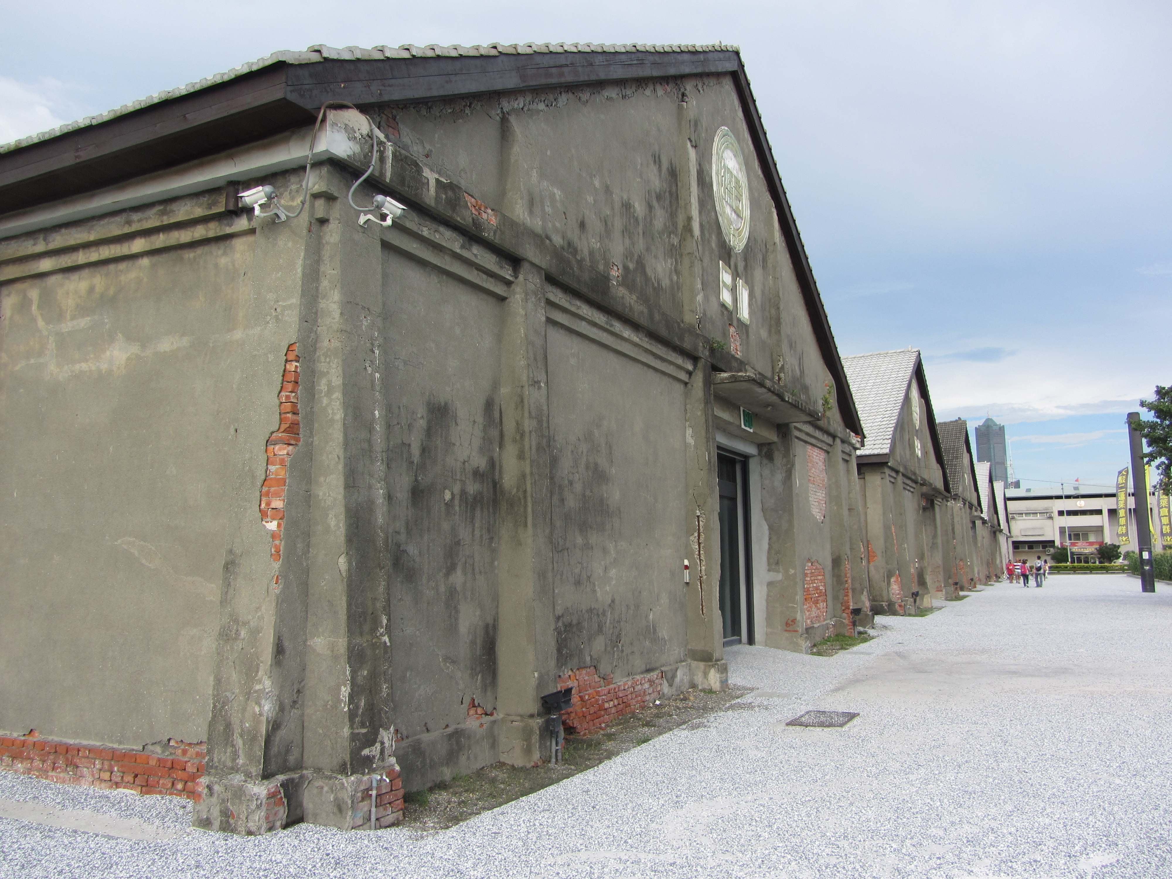 Penglai Warehouses, Pier-2 Art Center, Yancheng District, Kaohsiung City, Taiwan.